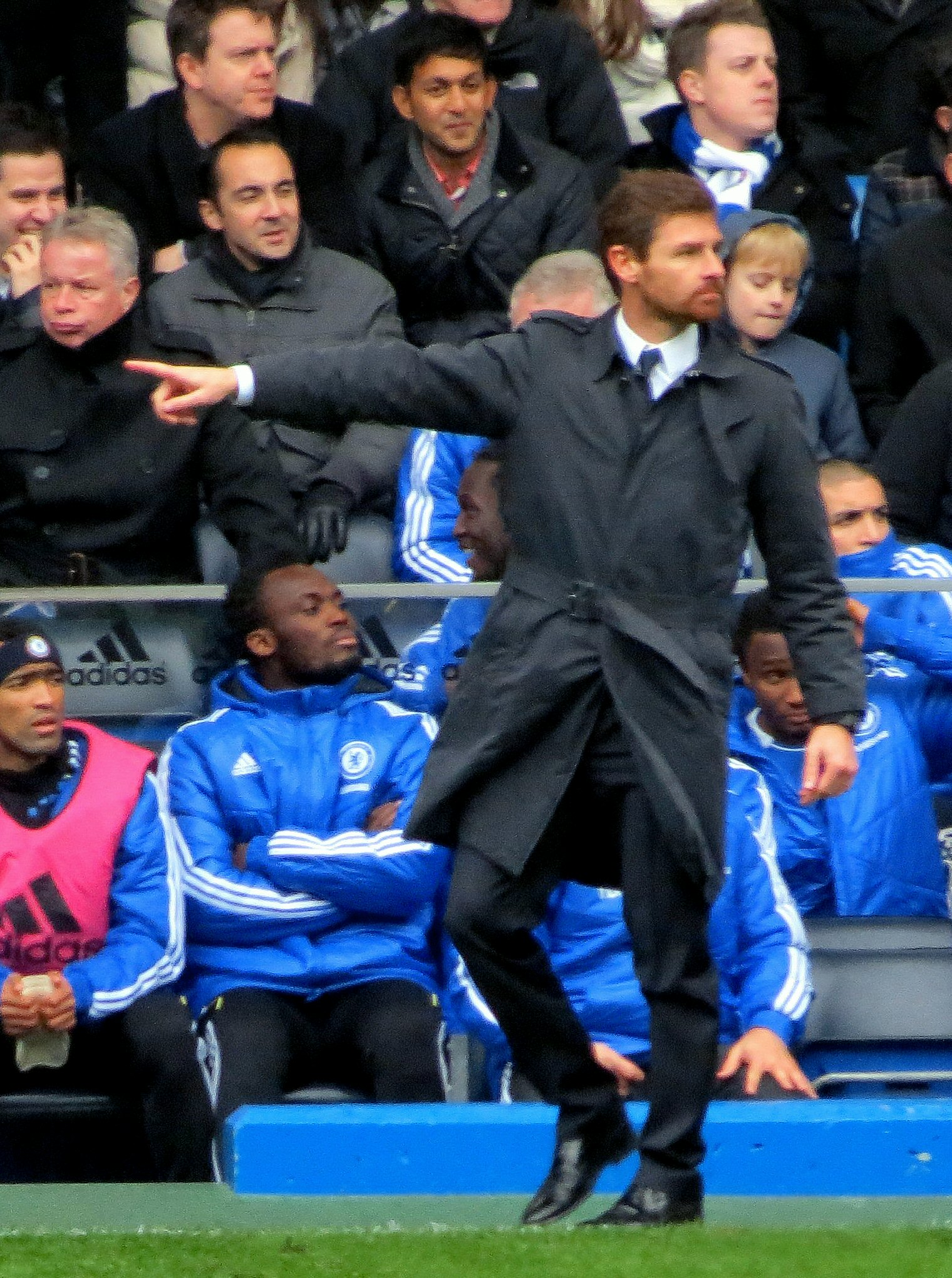 André Villas-Boas at Stamford Bridge, February 2012